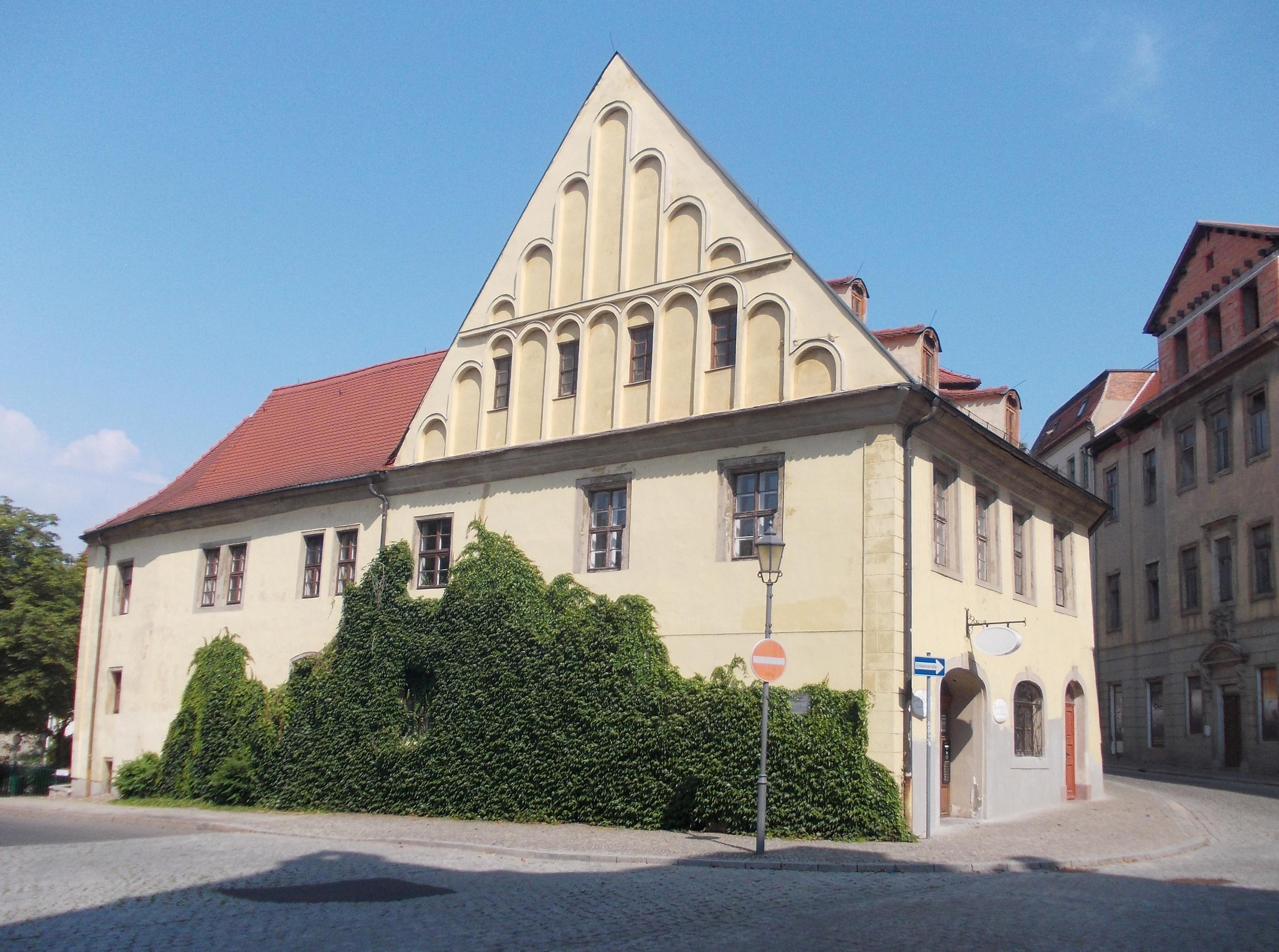 Domapotheke (Pharmacy at the cathedral) in Merseburg (district: Saalekreis, Saxony-Anhalt)